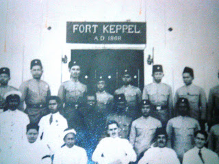 There were 36 gentlemen posing in front of the only fort built by the Brooke regime in Bintulu. Just above the fort entrance door are the words "FORT KEPPEL A.D. 1868".